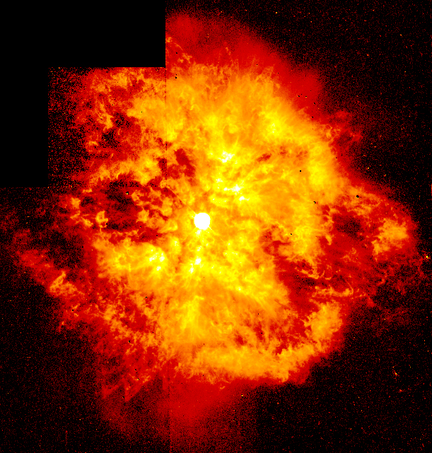 This NASA Hubble Space Telescope picture of the energetic star WR124 reveals it is surrounded by hot clumps of gas being ejected into space at speeds of over 100,000 miles per hour. Also remarkable are vast arcs of glowing gas around the star, which are resolved into filamentary, chaotic substructures, yet with no overall global shell structure. Though the existence of clumps in the winds of hot stars has been deduced through spectroscopic observations of their inner winds, Hubble resolves them directly in the nebula M1-67 around WR124 as 100 billion-mile wide glowing gas blobs. Each blob is about 30 times the mass of the Earth. The massive, hot central star is known as a Wolf-Rayet star. This extremely rare and short-lived class of super-hot star (in this case 50,000 degrees Kelvin) is going through a violent, transitional phase characterized by the fierce ejection of mass. The blobs may result from the furious stellar wind that does not flow smoothly into space but has instabilities which make it clumpy. The surrounding nebula is estimated to be no older than 10,000 years, which means that it is so young it has not yet slammed into the gasses comprising the surrounding interstellar medium. The star is 15,000 light-years away, located in the constellation Sagitta. The picture was taken with Hubble's Wide Field Planetary Camera 2 in March 1997. The image is false-colored to reveal details in the nebula's structure.